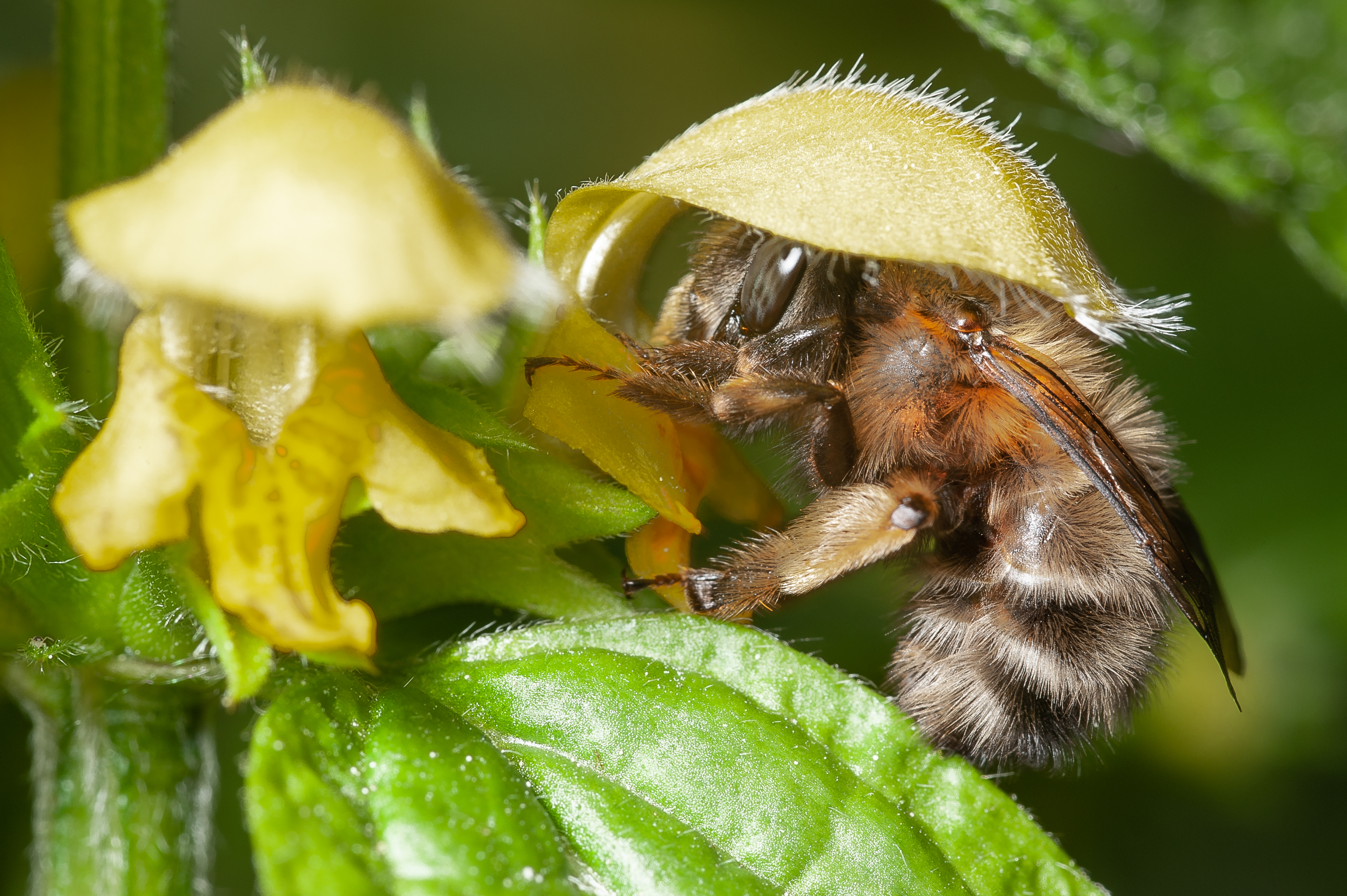 Anthophora plumipes, f, on a Lamium galeobdolon flower, image taken in Stuttgart, Germany. Thanks to the members of Entomologie.de for the identification.